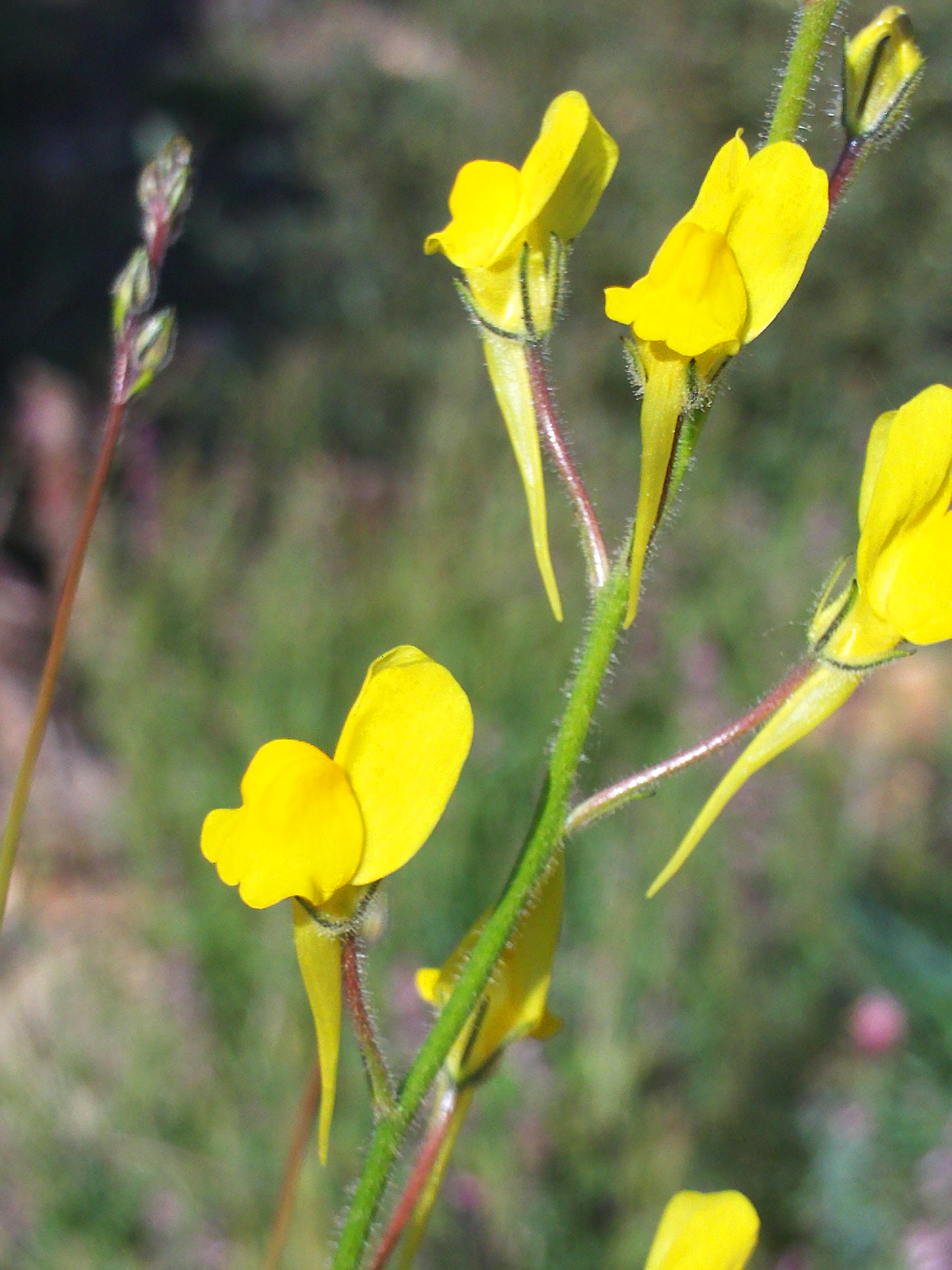 Linaria spartea Flowers Close up, Dehesa Boyal de Puertollano, Spain